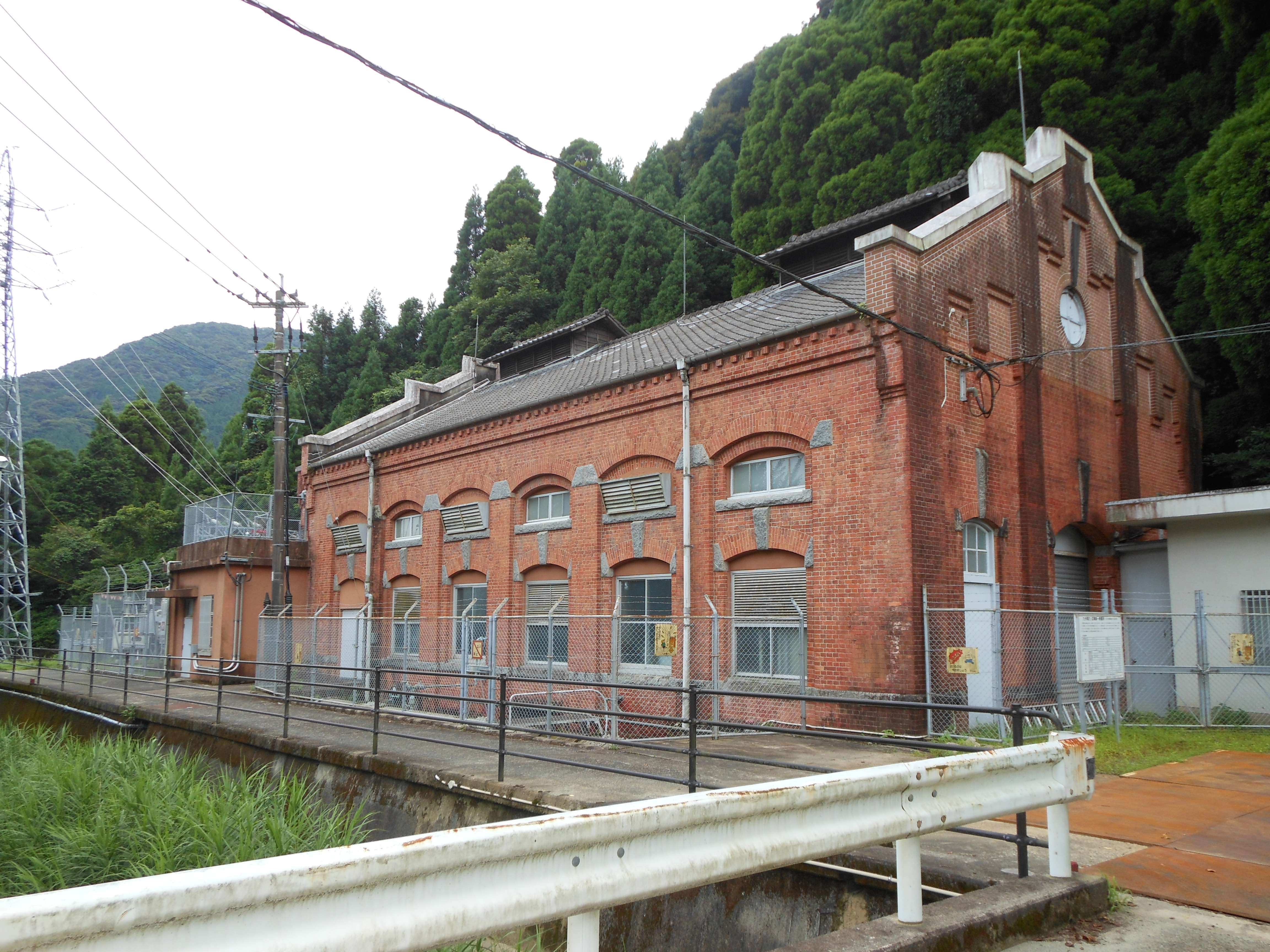 Hirotaki-Daiichi hydro power station, side of Jōbaru River, in Kanzaki city, Saga prefecture, Japan.